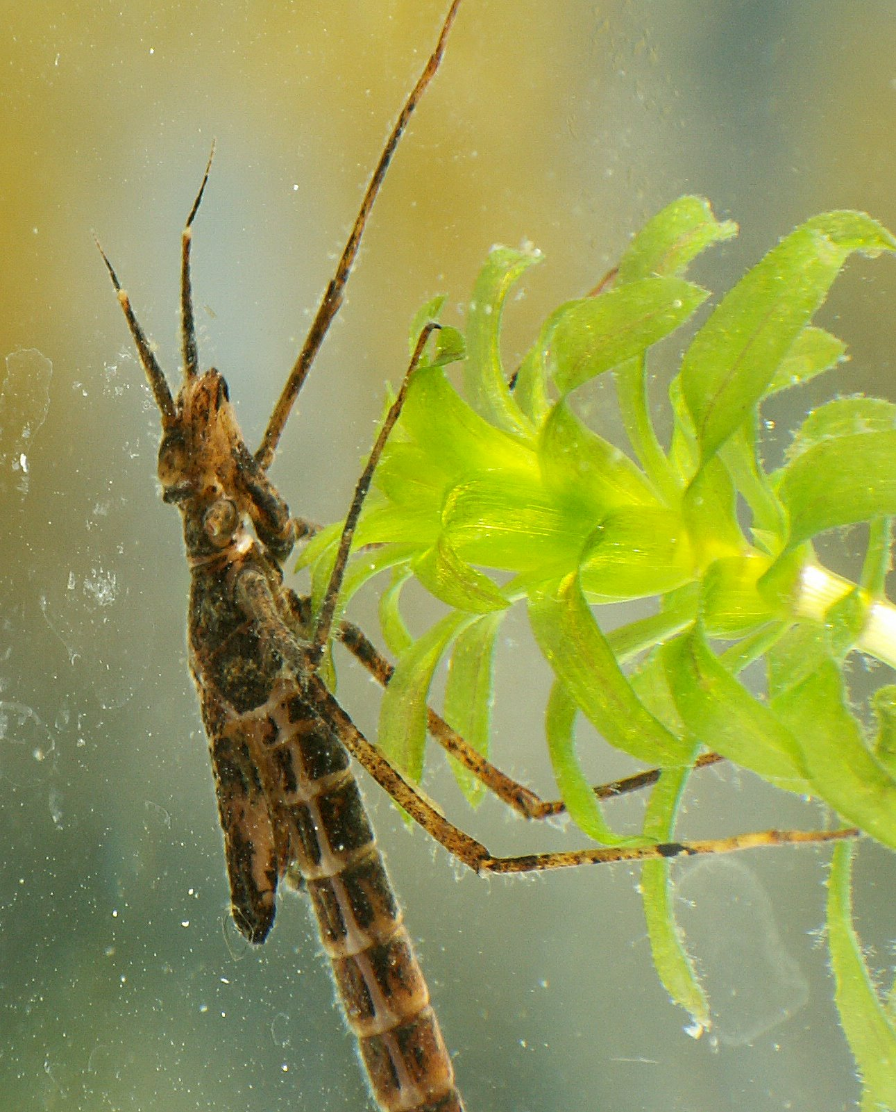 Nymph of Calopteryx splendens from the Valleikanaal, Utrecht, The Netherlands